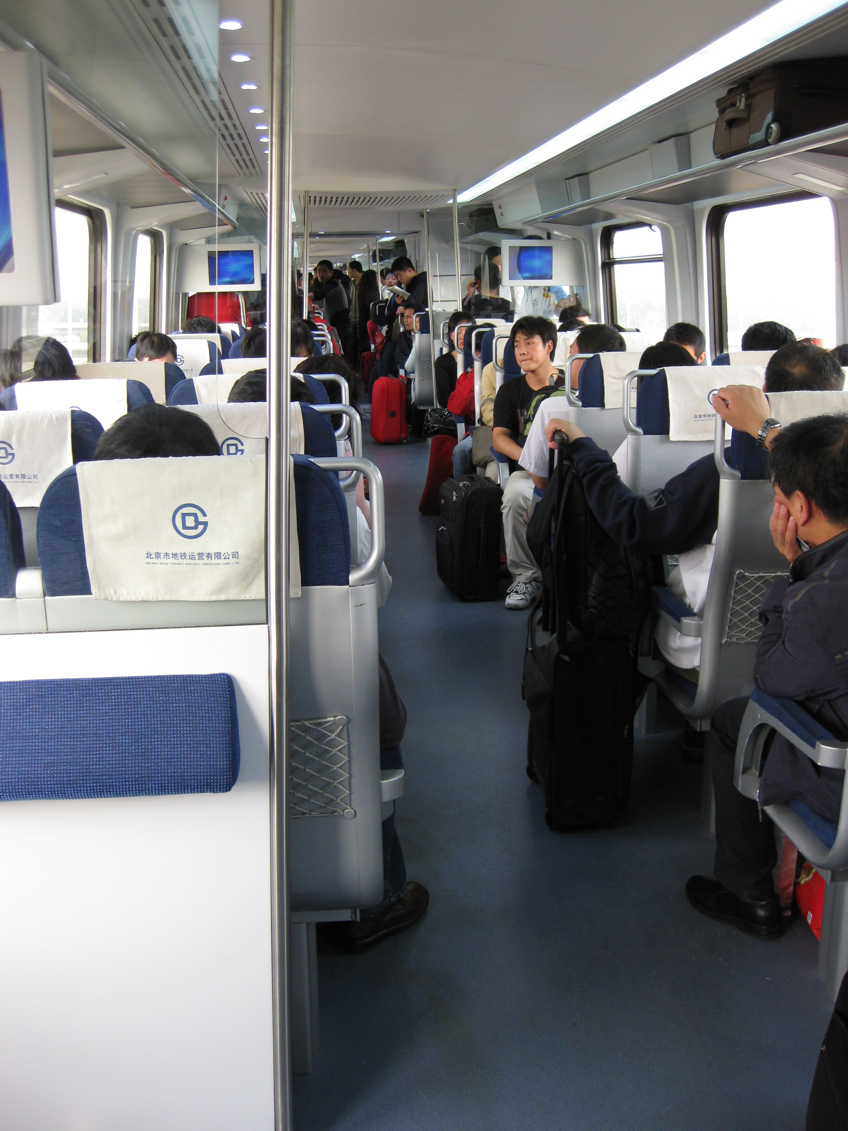 Only 25 RMB, gets you there in a jiffy.